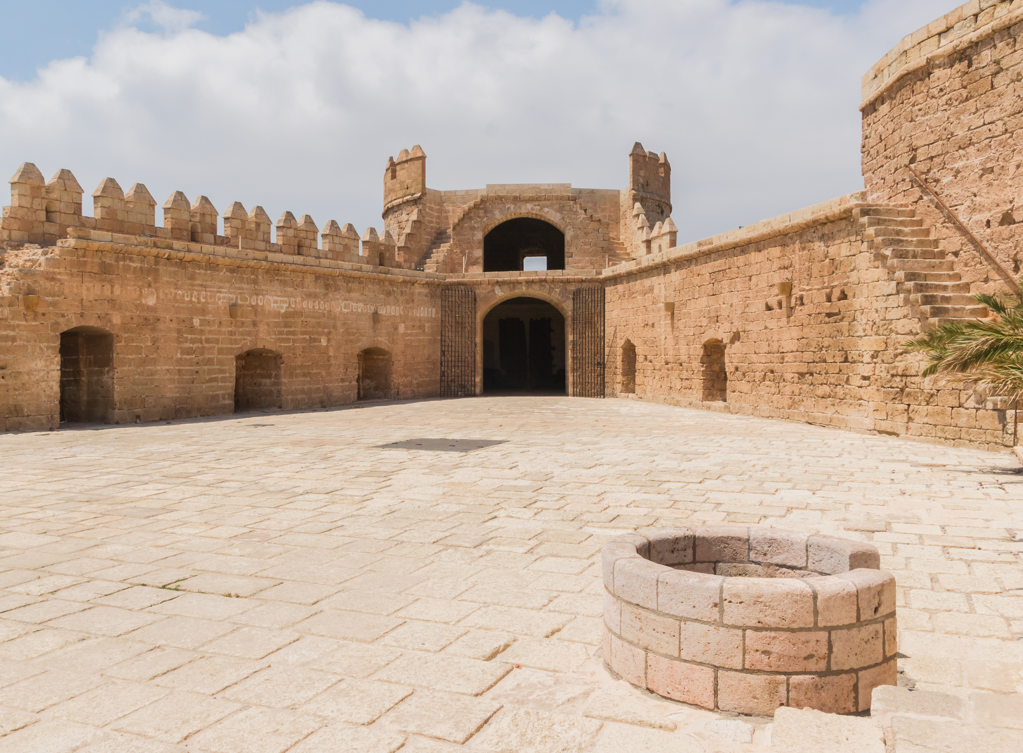 "Powder Tower", courtyard, well, Alcazaba, Almeria, Spain.